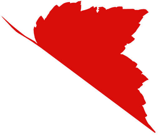 Red maple leaf.